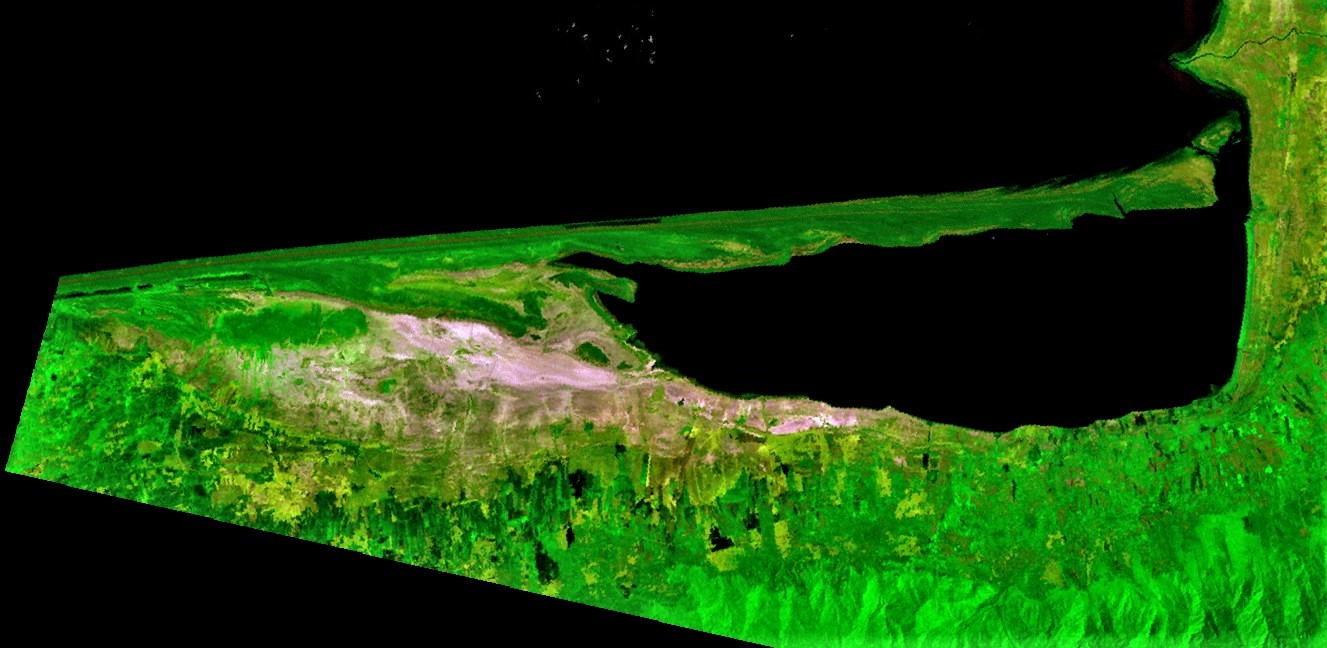 Gorgan Bay separated from open waters of the Caspian Sea with the Miankaleh peninsula, it's easternmost tip includes former Ashuradeh island; LandSat-2 satellite image 05-JUL-1975 ID:EMP175R34_2M19750705